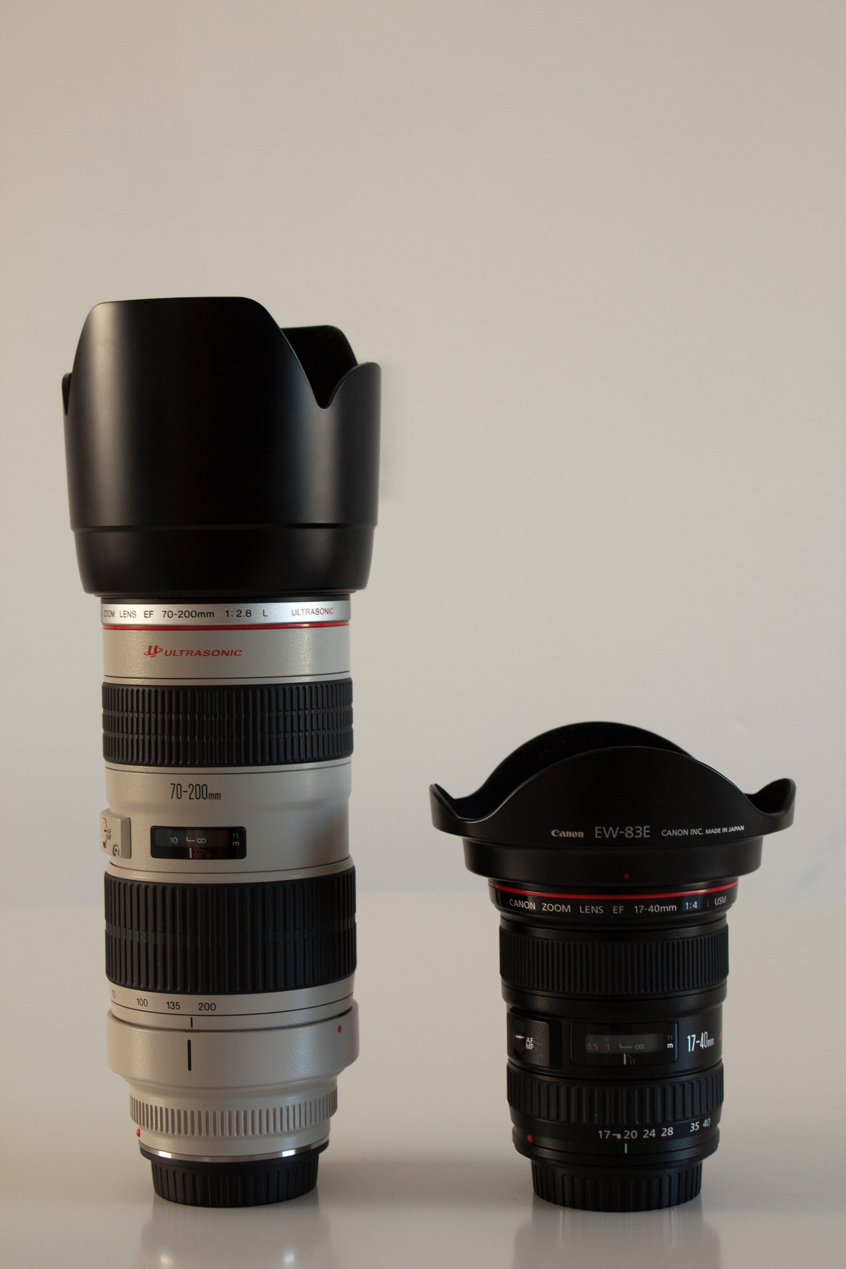 The Canon 70-200 F/2.8L USM and the Canon 17-40 F/4L USM